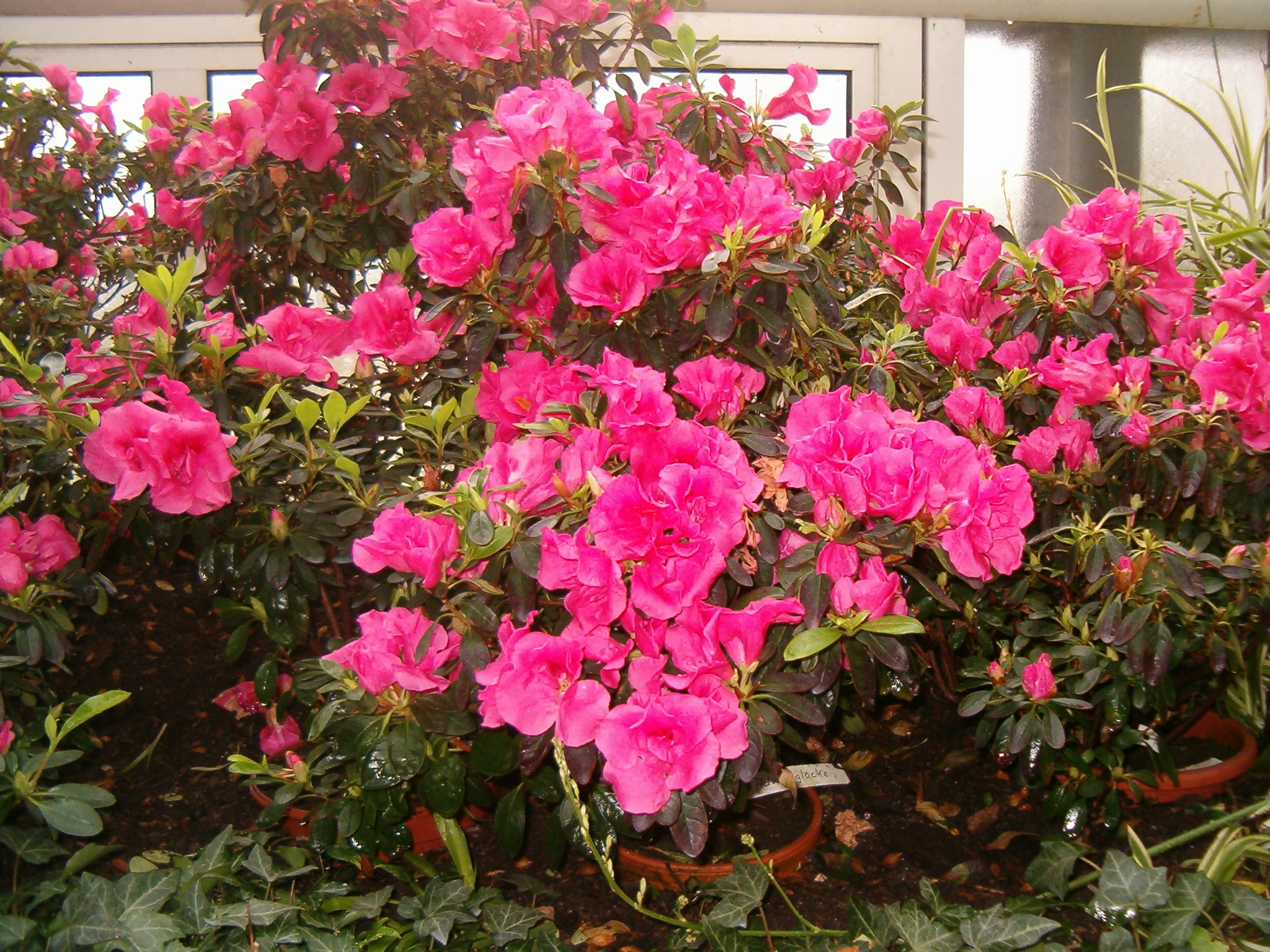 Location: Botanical Gardens Berlin Dahlem